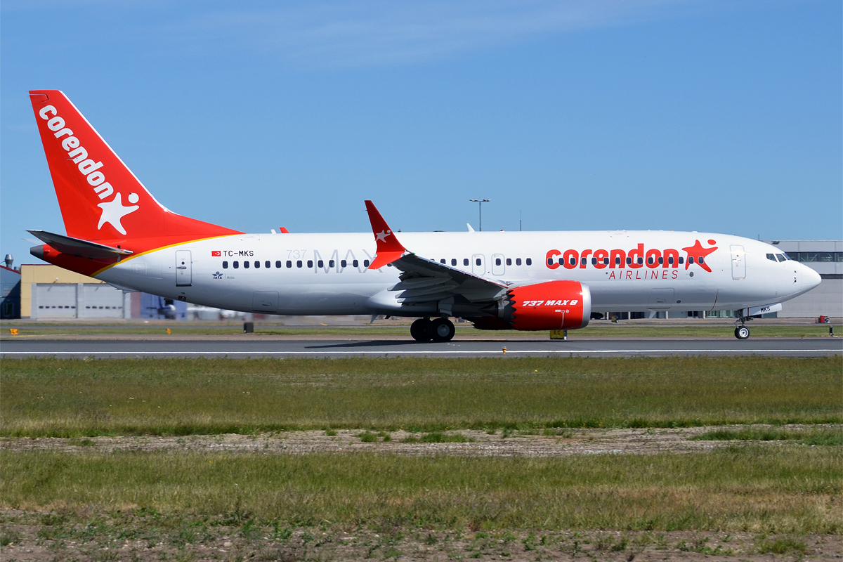 Corendon Airlines, TC-MKS, Boeing 737-8 MAX